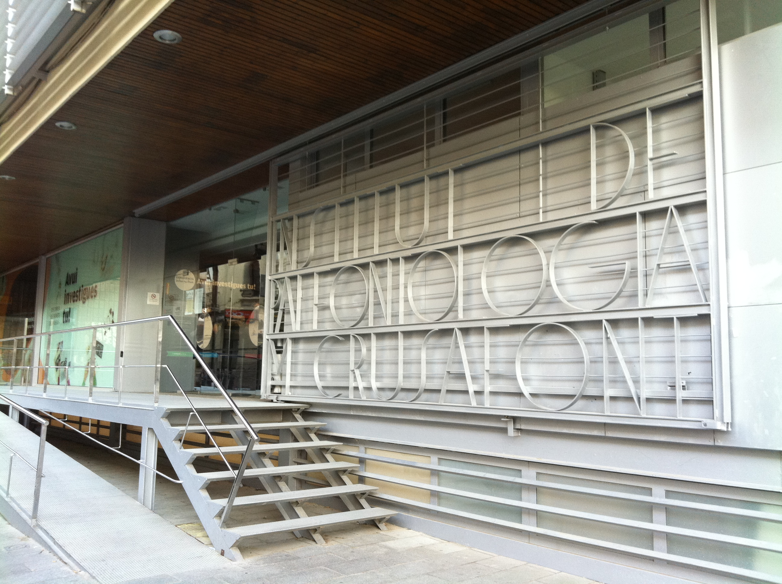 Entry to the Institut Català de Paleontologia Miquel Crusafont